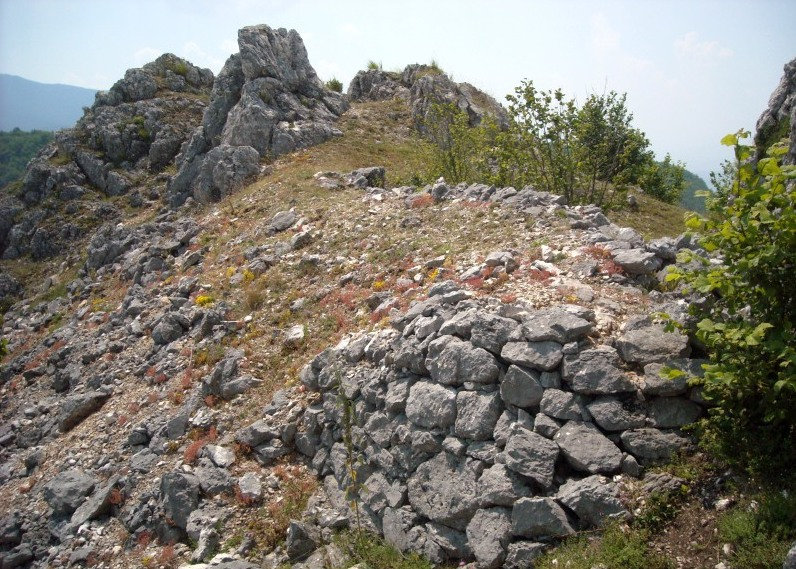 Remains of Austro-Hungarian fortification on the site of historic fortress of Hodidjed